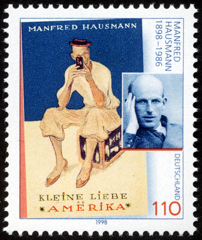 Stamp from Deutsche Post AG from 1998, 100th birthday of Manfred Hausmann